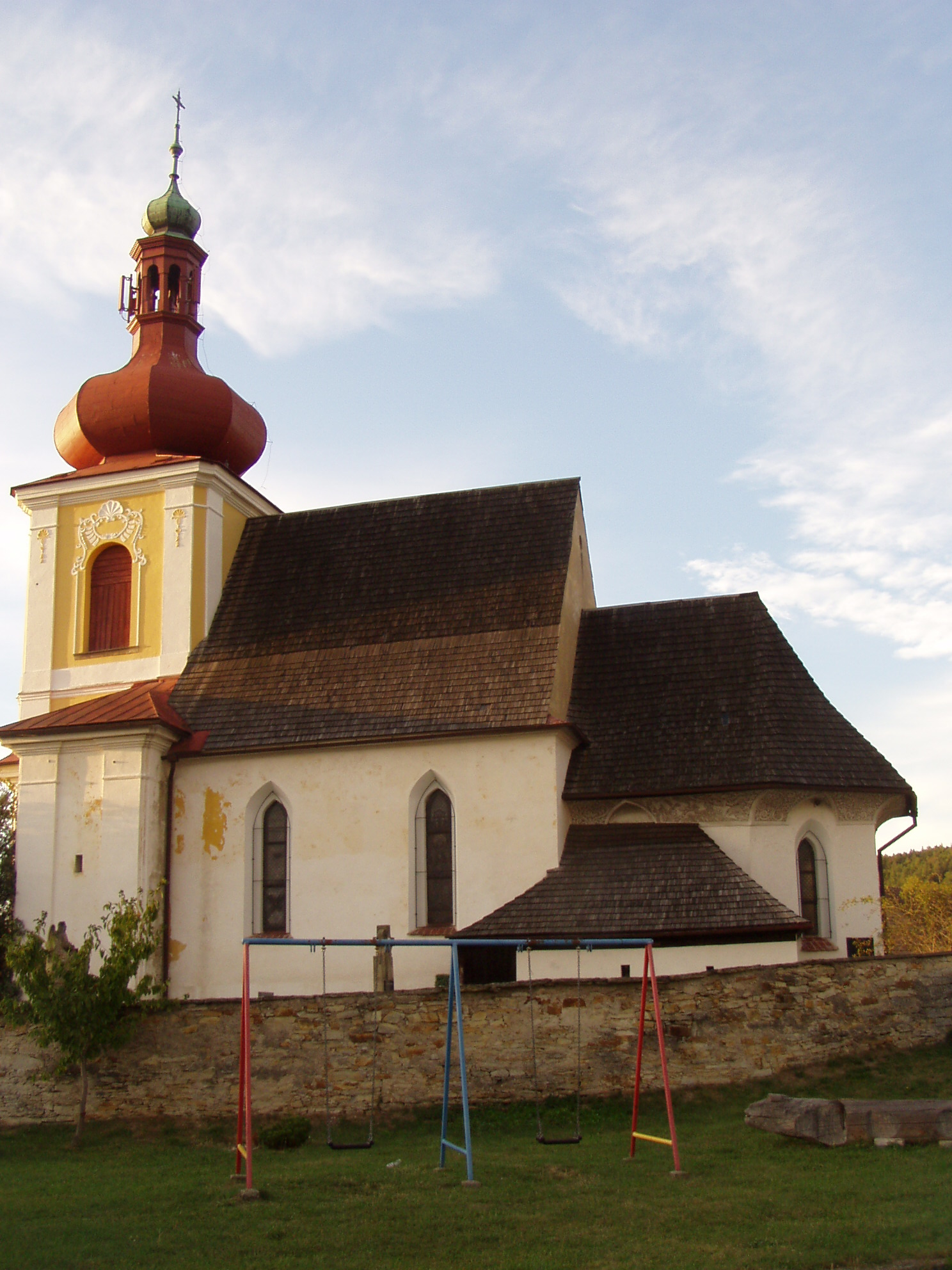 Church of Saint Lawrence (Křivice)